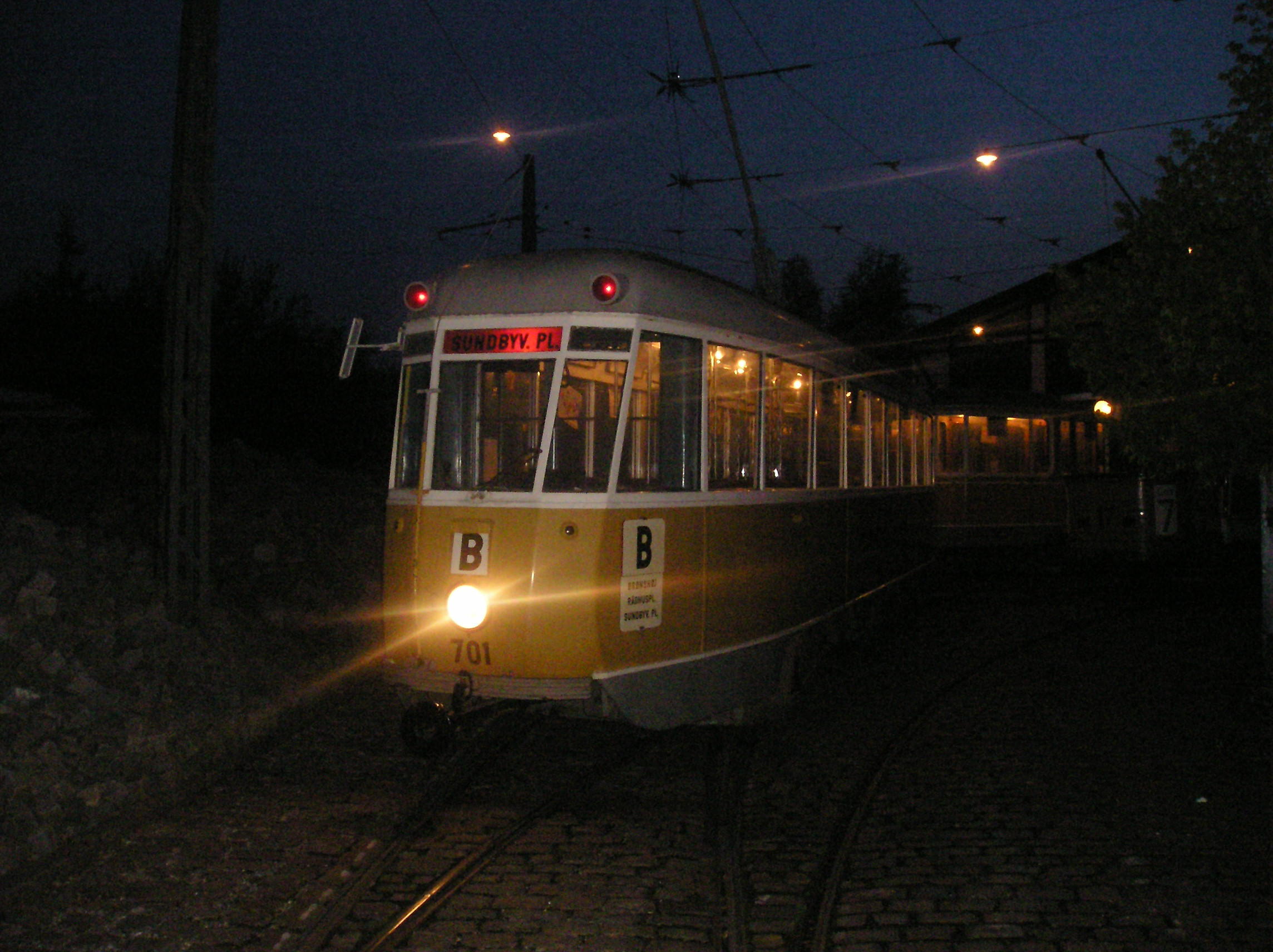 Evening at Sporvejsmuseet Skjoldenæsholm in Denmark. Old tram from Copenhagen KS 701 as night line B with two red lanterns.